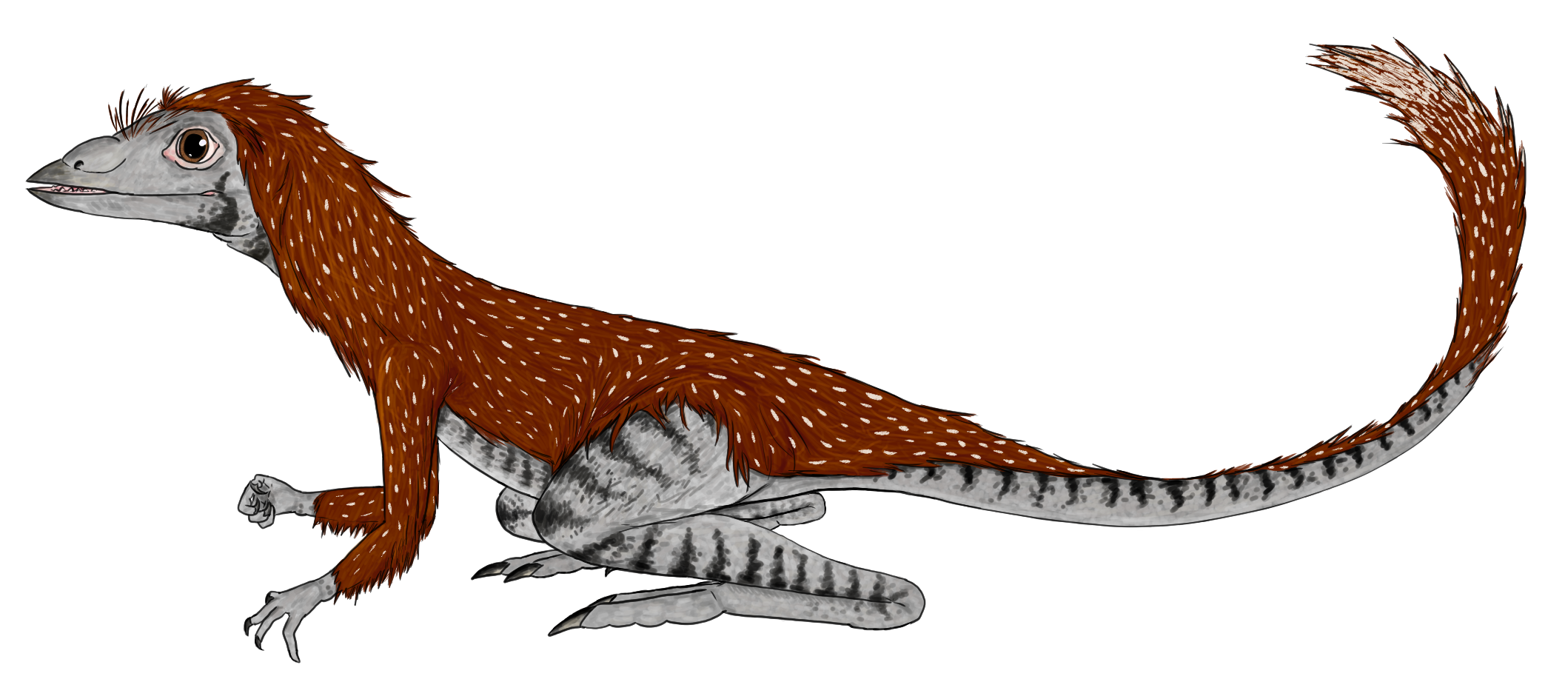 Life restoration of Kongonaphon kely, a lagerpetid avemetatarsalian from Madagascar.